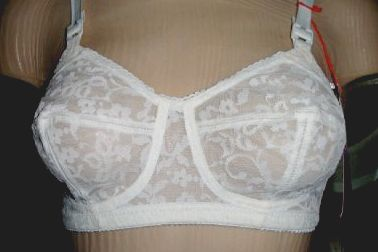 own work